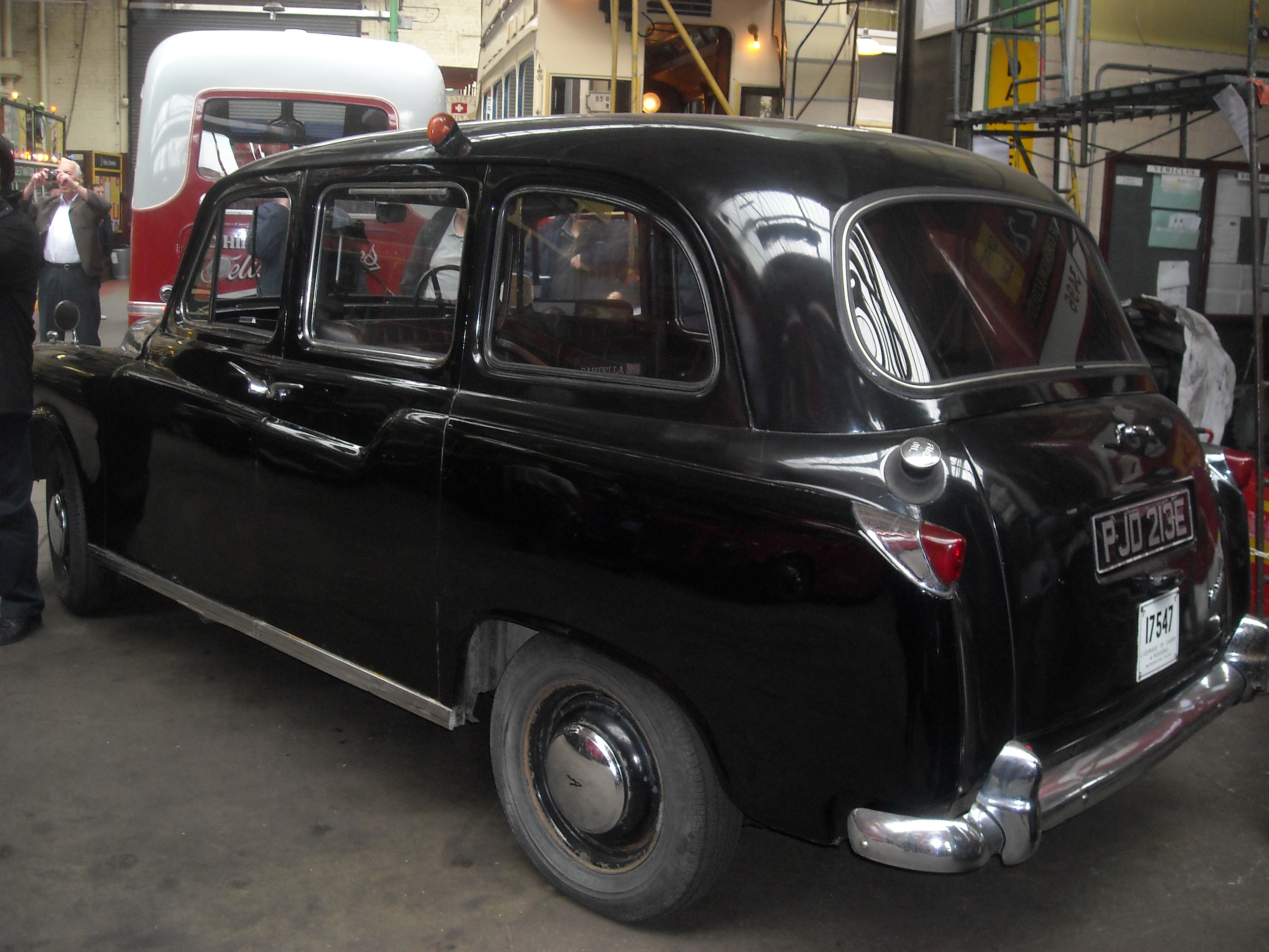 On display at the Museum of Transport